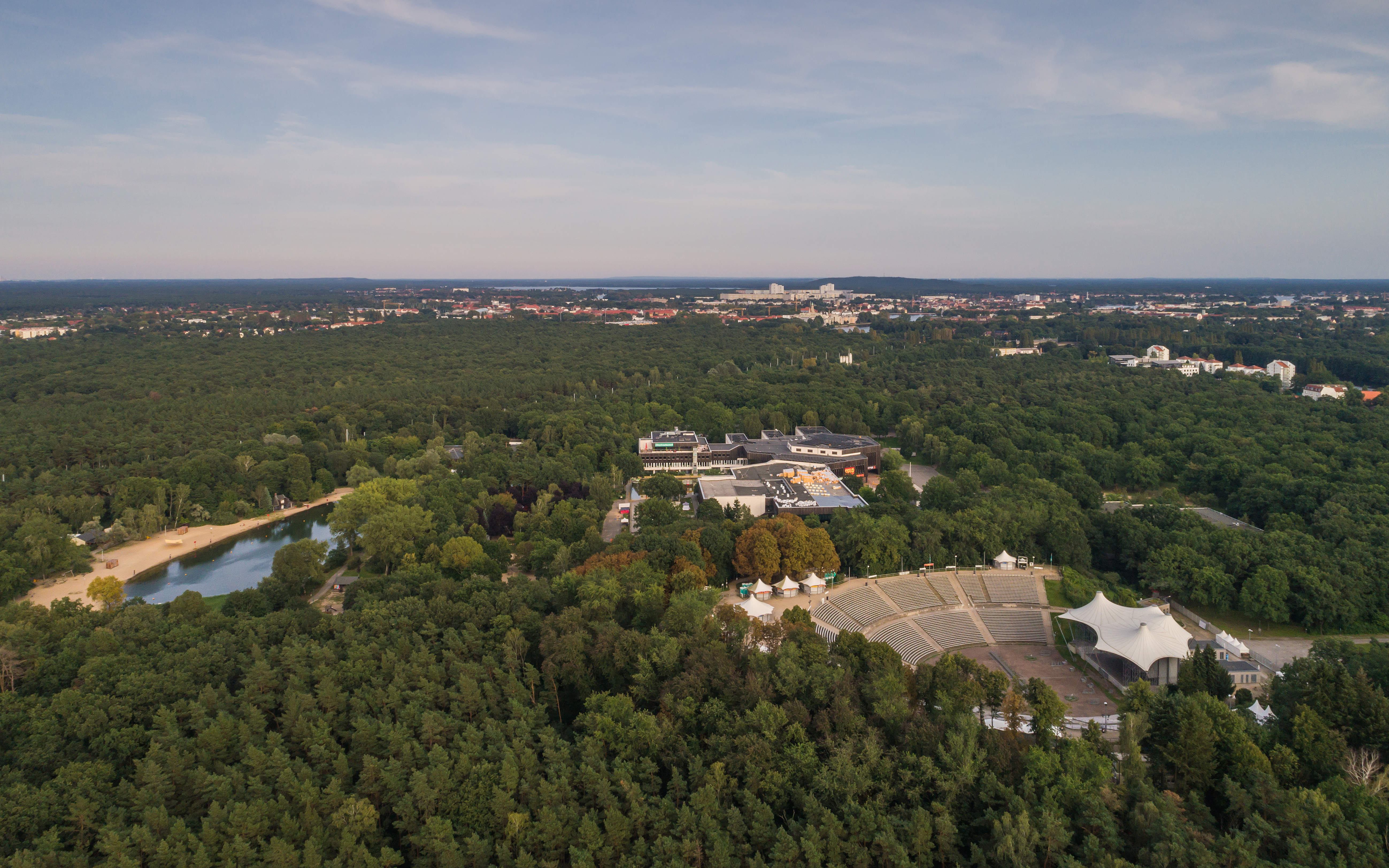 Wuhlheide park (aerial photo) in Berlin (Germany)